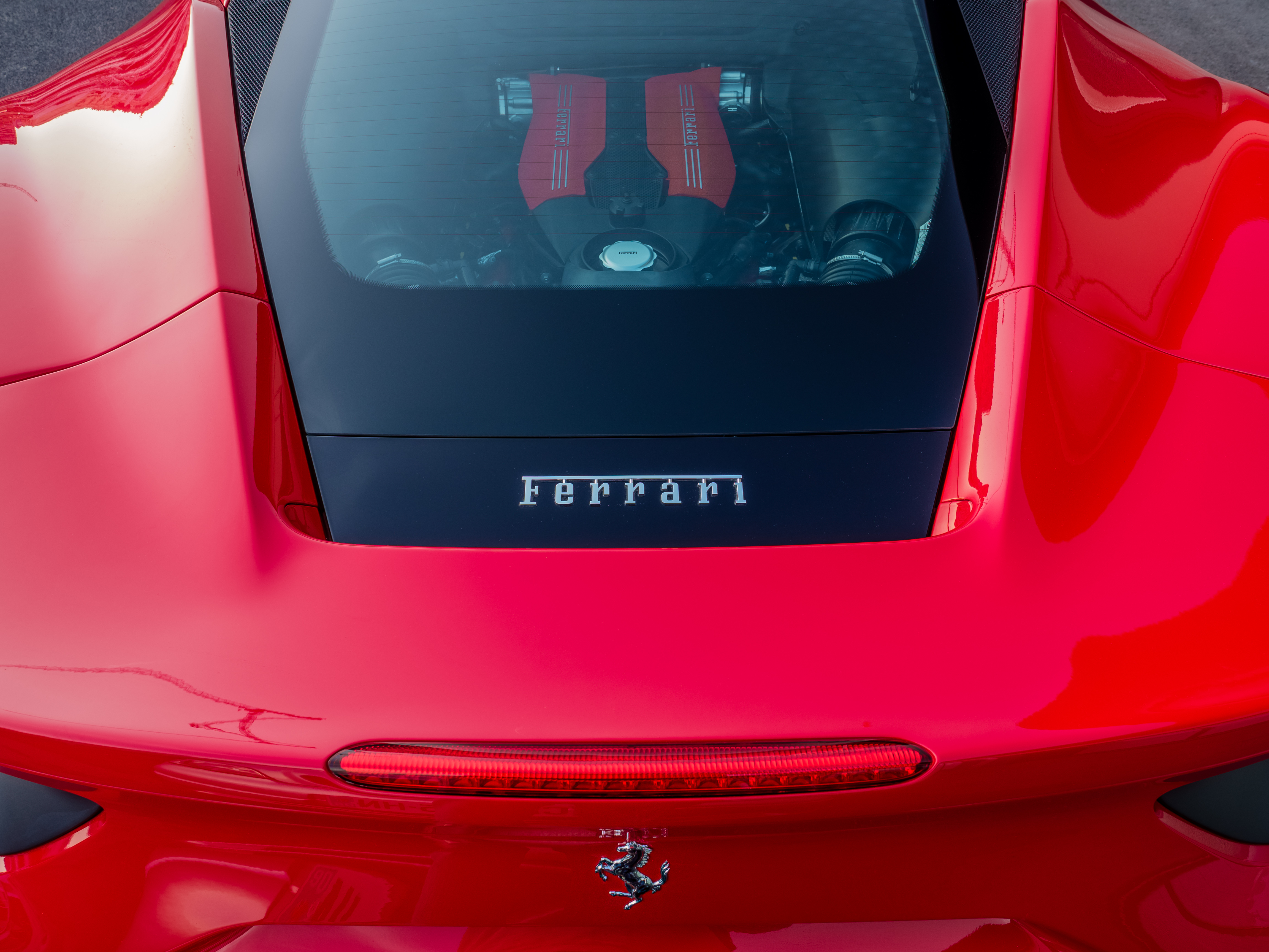 Ferrari 488 Rear View